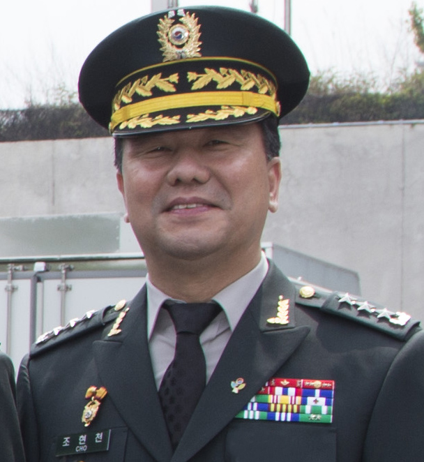 Lieutenant General Cho Hyun-chon, Commander of the Defense Security Command, Republic of Korea.